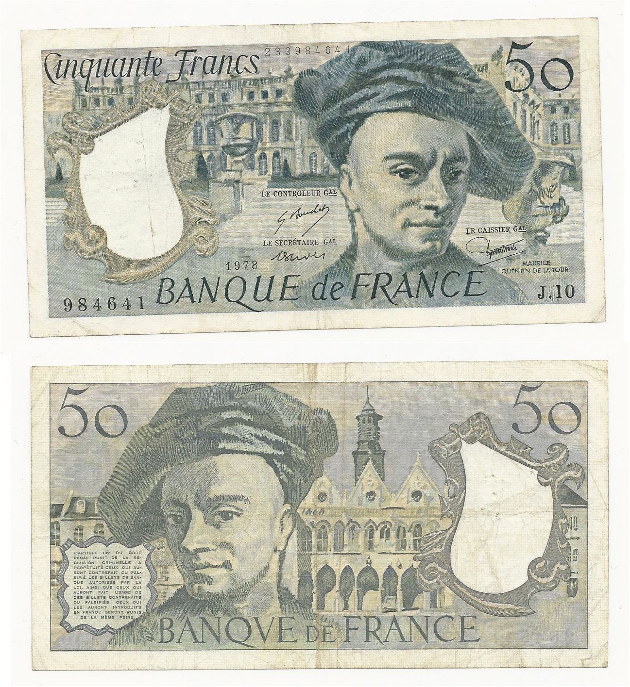 de la Tour, Maurice Quentin, Portraitist, 1704 St Quentin - 1788 St Quentin, France. Pick 152a.